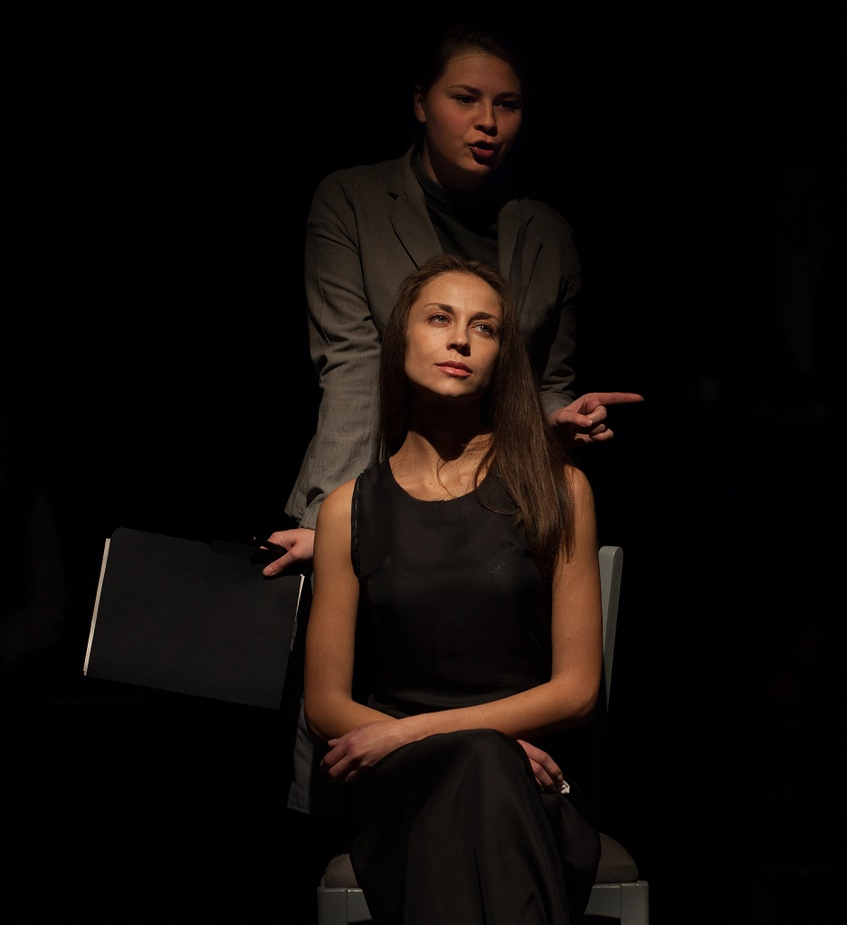 Photo from the pre-premiere of the performance "Night of January 16th", based on stage play of the same name by Ayn Rand. Photo of Karen Andre (sitting on a chair; performed by Lorena Kolibabchuk) and the prosecutor Mr. Flint (standing; performed by Xenia Vasylyeva). Troupe "Chesnyi Theater", director - Kateryna Chepura, NaUKMA, Kyiv, Ukraine.